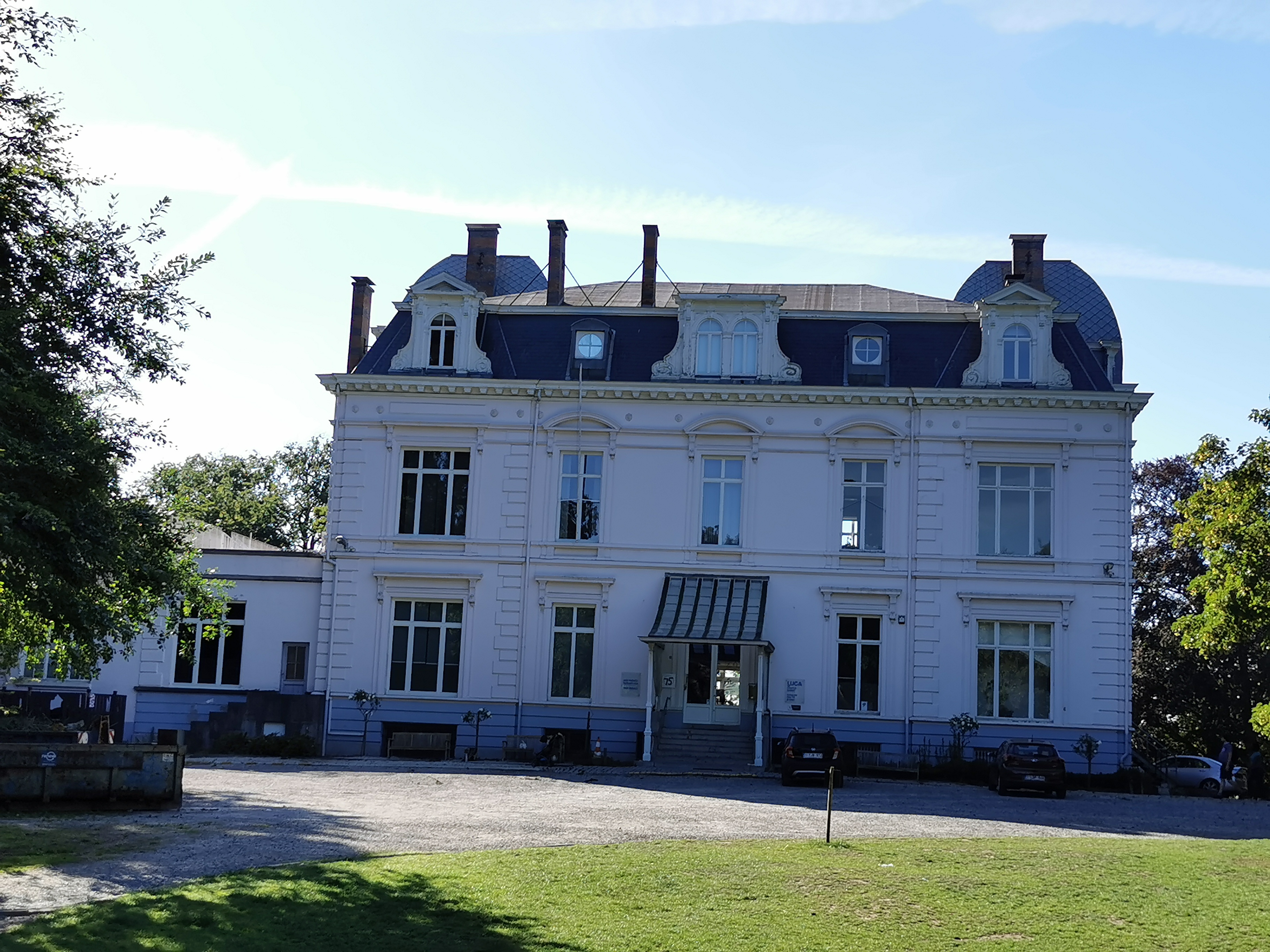 Duden castle